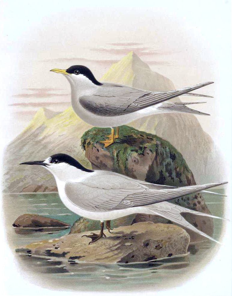 Sterna_albostriata (back) and Sterna striata.